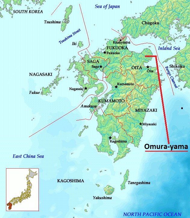 A map of the Kyūshū region (九州地方) with major islands, Kitakyūshū, prefectures and prefectural capitals indicated